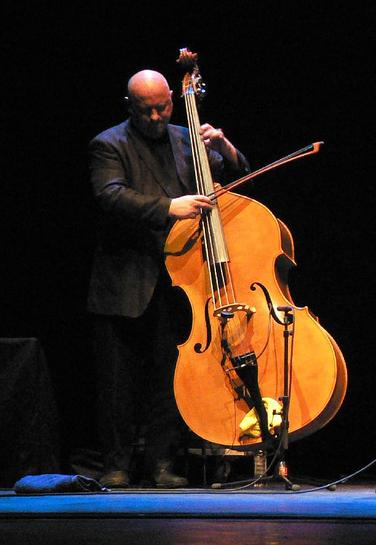 Gavin Bryars (cropped version)